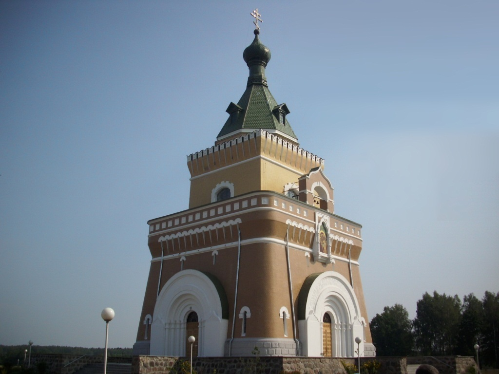 The memorial chapel built in 1912 in the village of Lesnaya Slavgorod district, Mogilev region, in honor of the 200th anniversary of the victory of Russian troops over the Swedes in the Battle of Lesnaya in 1708, one of the major battles of the Great Northern War.